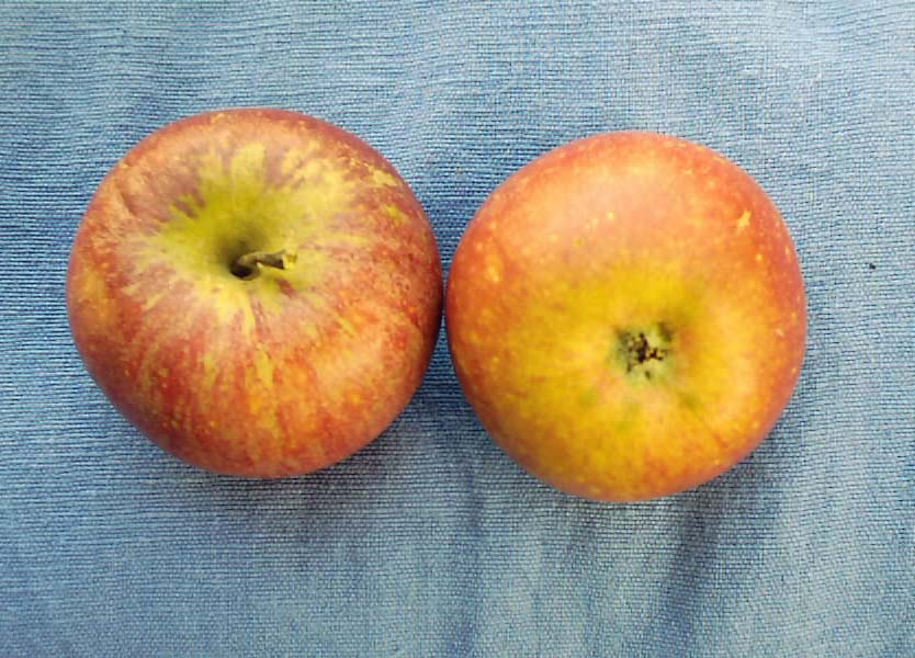 own photography taken on 19 october 2005, showing apple Ingrid Marie